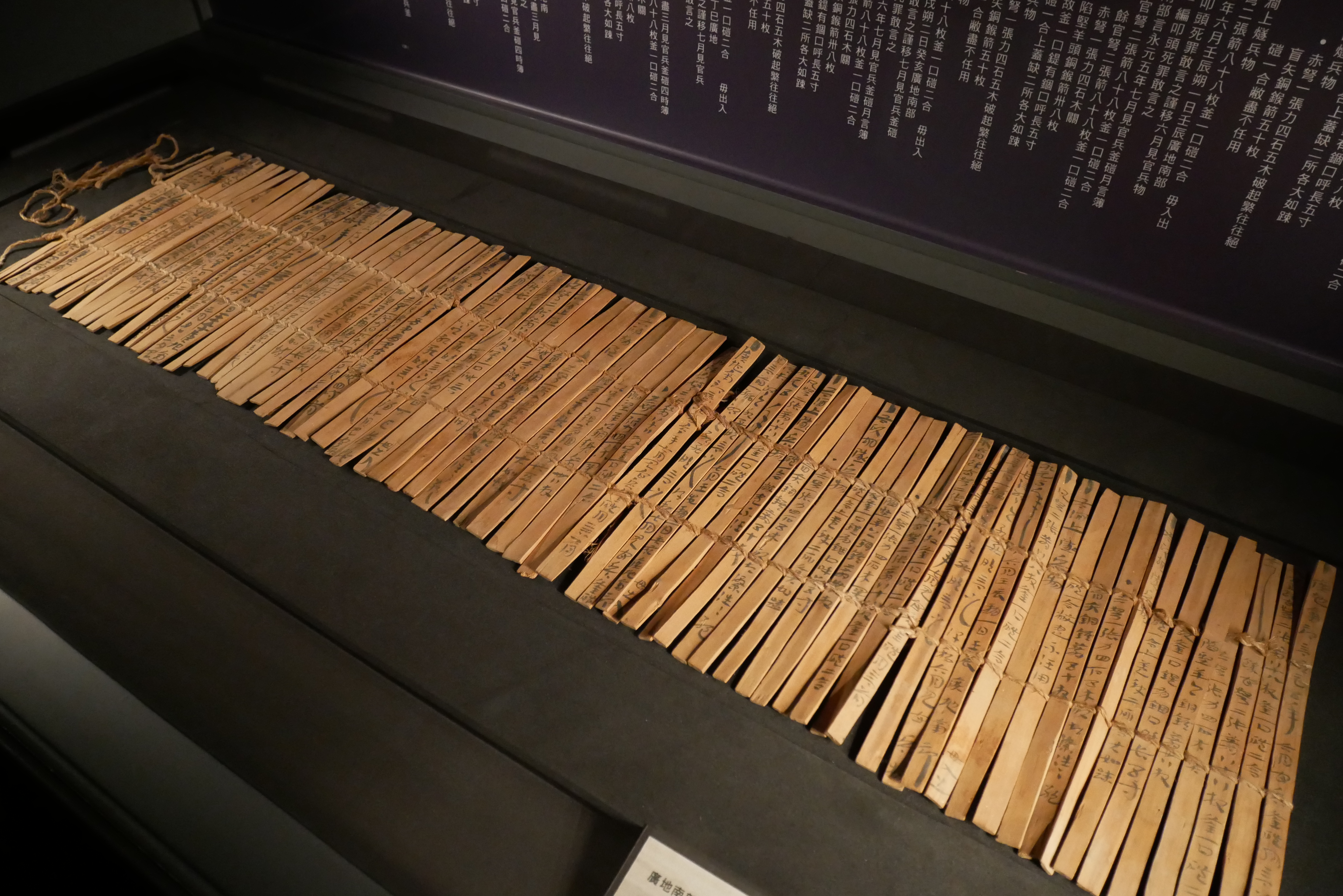 廣地南部永元五年至七年官兵釜磑月言及四時簿，臺北市南港區中研次分區中研里